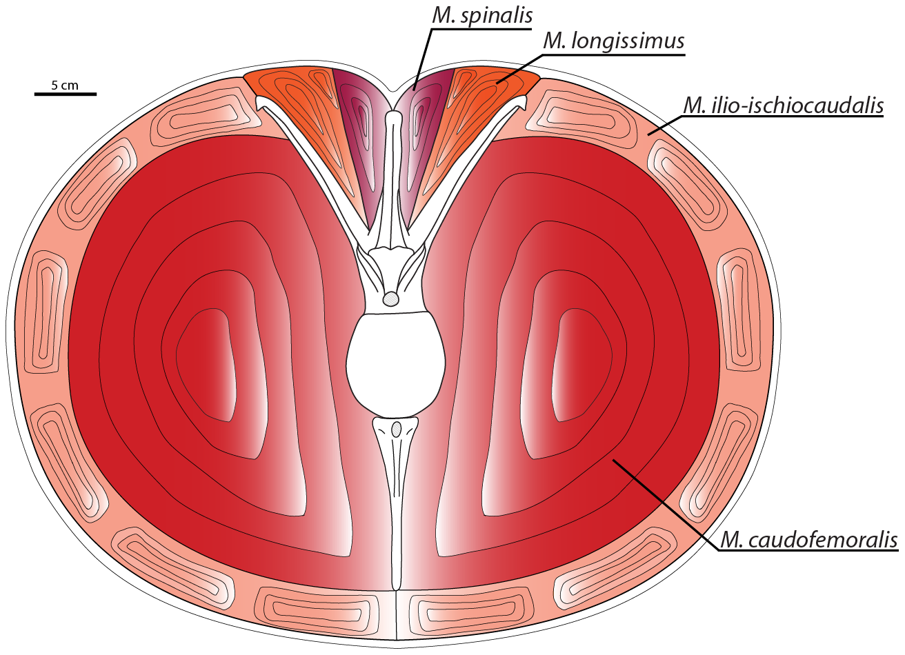 Original description: Cross-section through the tail of Carnotaurus sastrei showing caudal vertebra 6 and accompanying musculature.